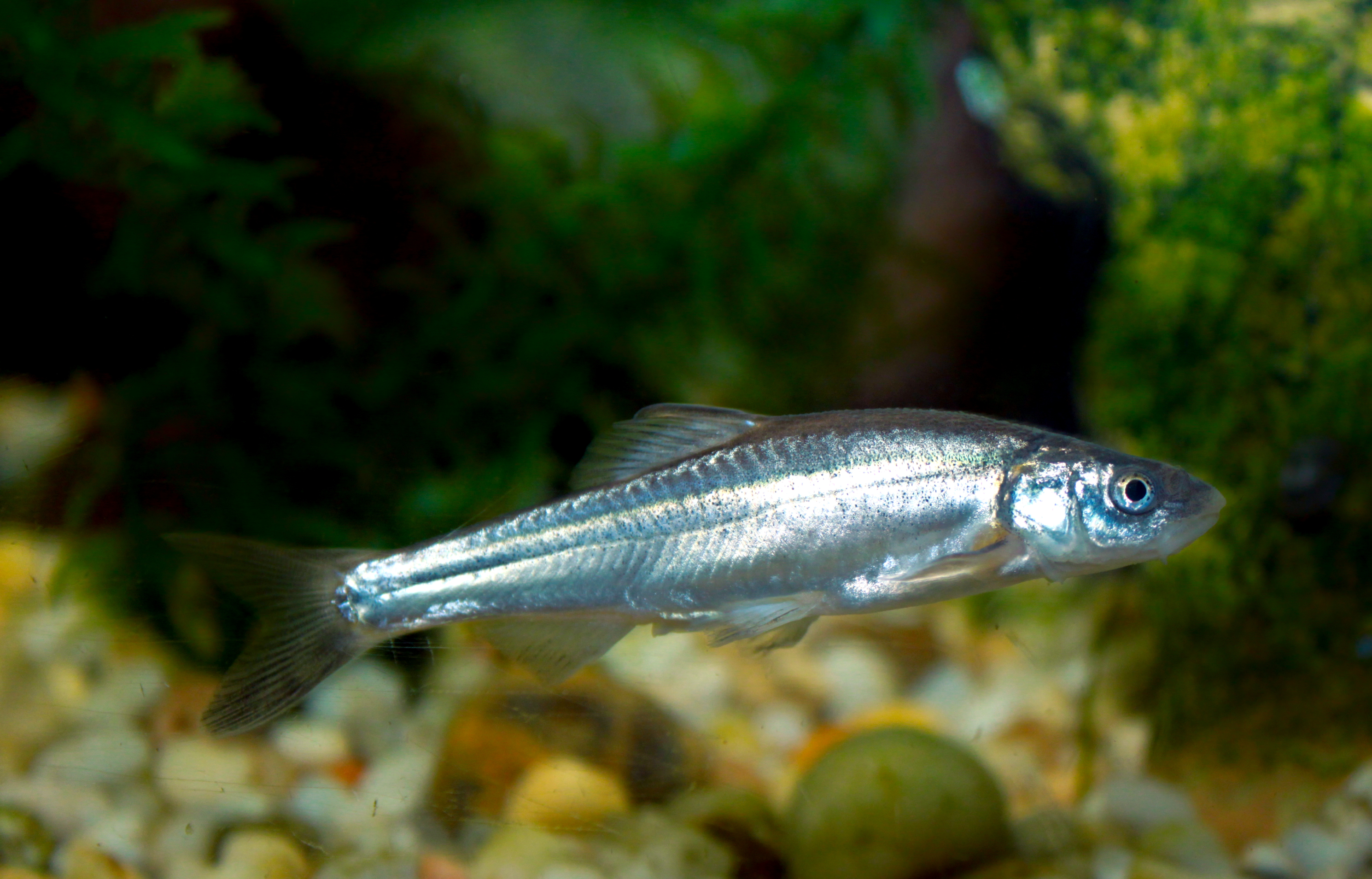 Woundfin (Plagopterus argentissimus)